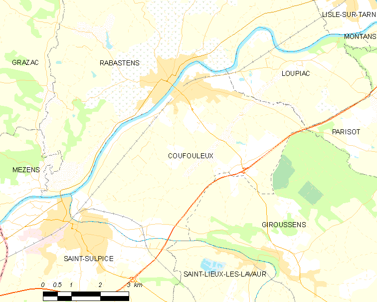 Map of French municipality Coufouleux